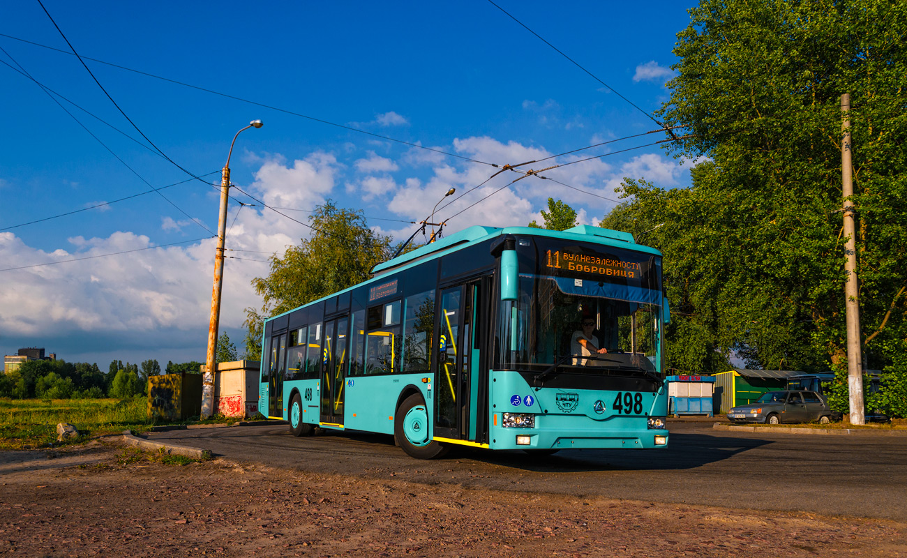 Etalon T12110 Barvinok on route 11 at the final stop "Nezalezhnosti Street"